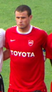 Nicolas Pallois (Valenciennes FC)